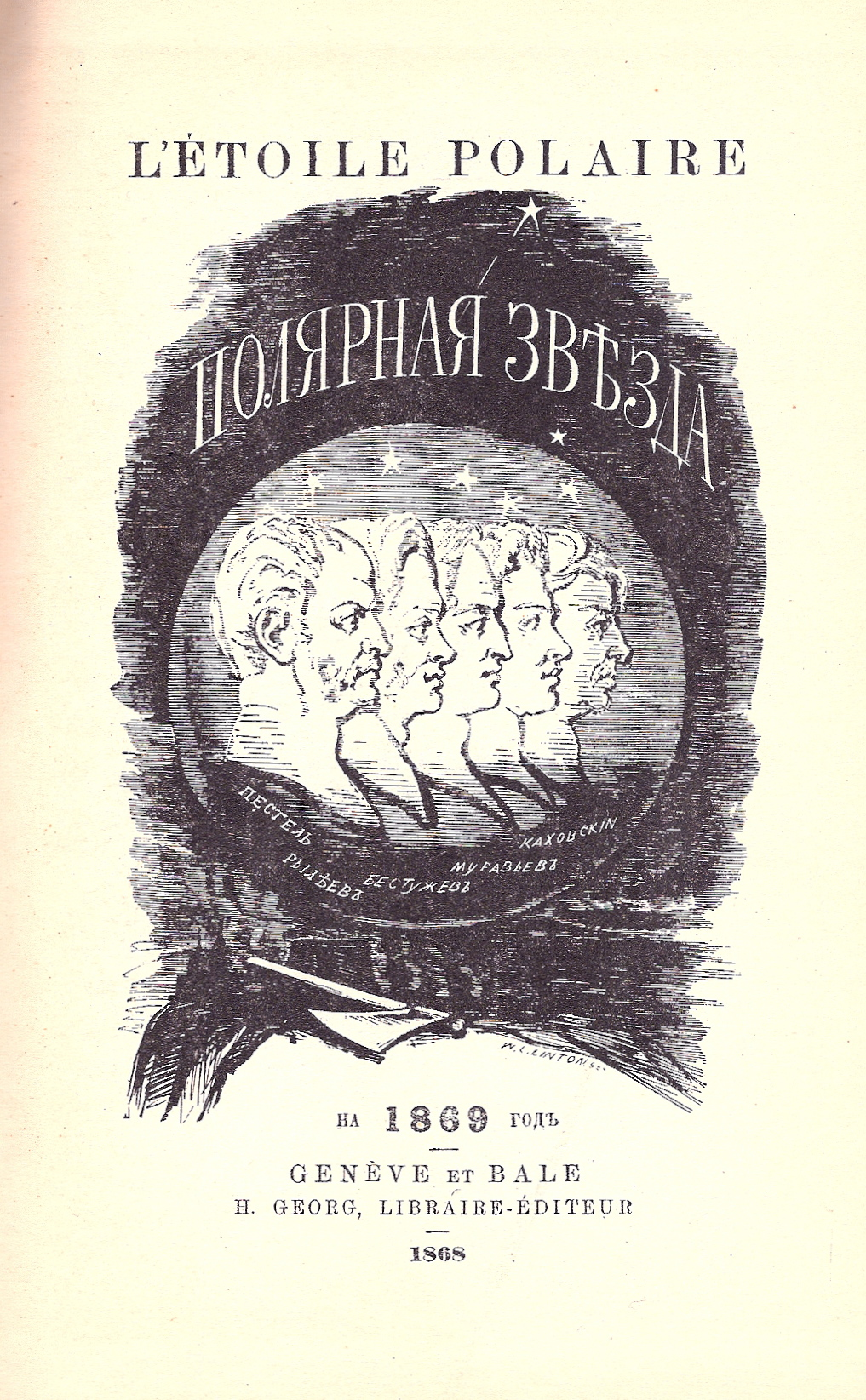 The title page of issue "Полярная звезда" ("Polar Star"), the exile-russian publication of Alexander Herzen and Nikolay Ogarev. Geneva, 1868.